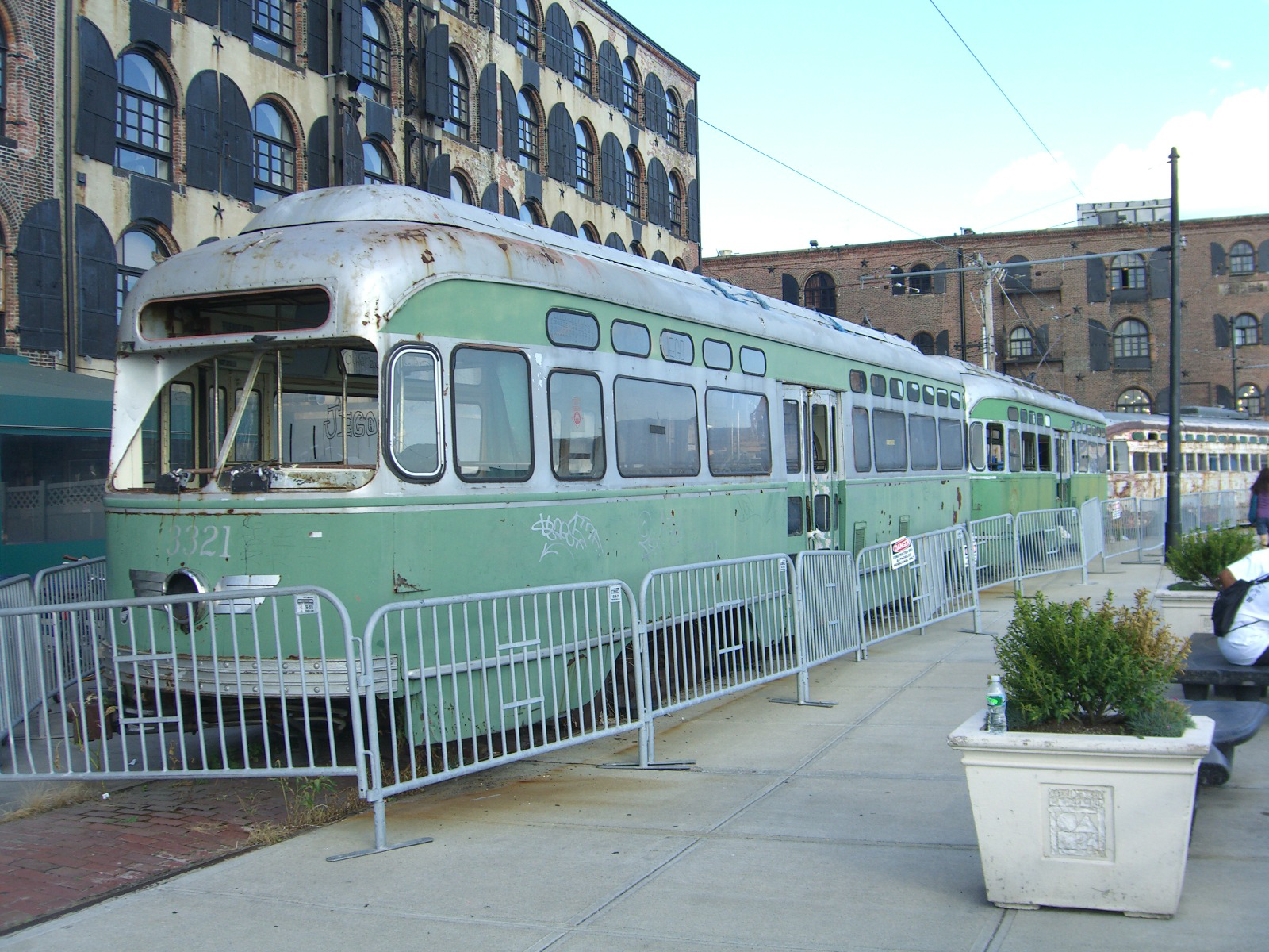 Defunct cable cars seen behind the Fairway supermarket in Red Hook, Brooklyn.